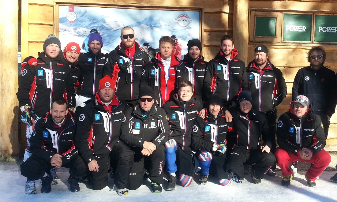 Александр Хорошилов, Степан Зуев, Павел Трихичев, Александр Андриенко, Артём Бородайкин, Максим Стуков и Александр Глебов.